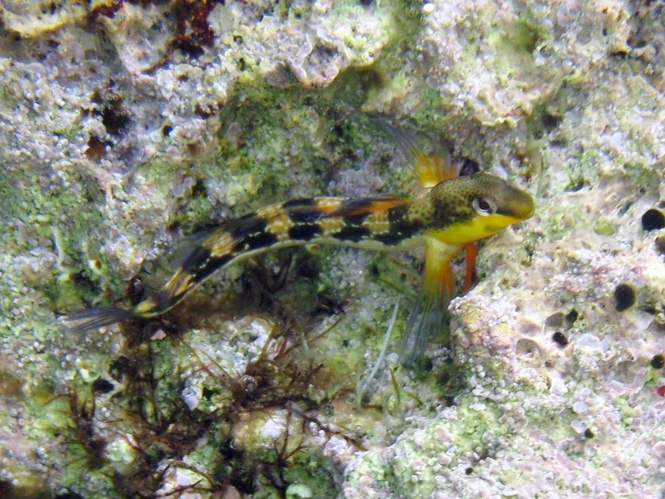 Spawning male Lipophrys adriaticus photographed near Krk island (Northern Dalmatia, Croatia). Photo by Roberto Pillon.